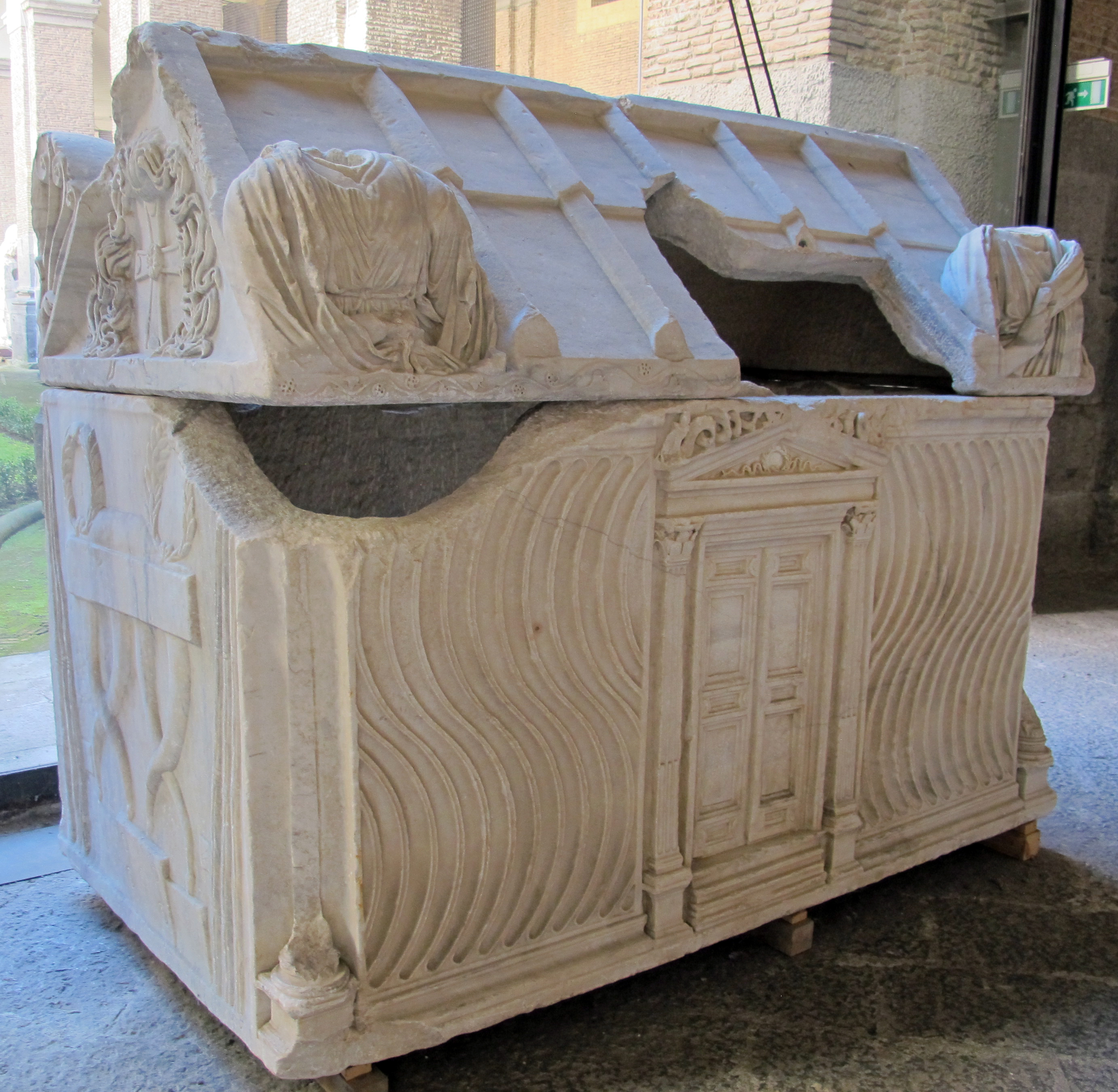 Museo Archeologico (Naples)